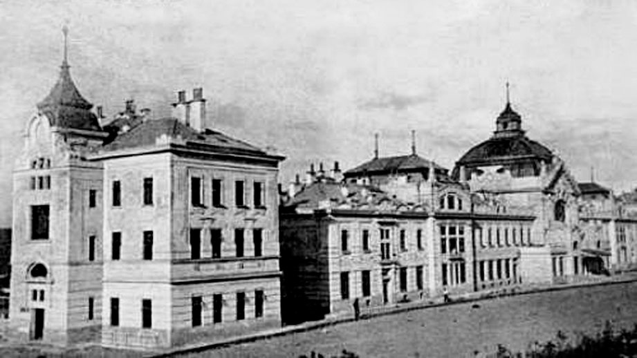 Railway station in Chernivtsi (now Ukraine). Beginning of the 20th century. Postcard.